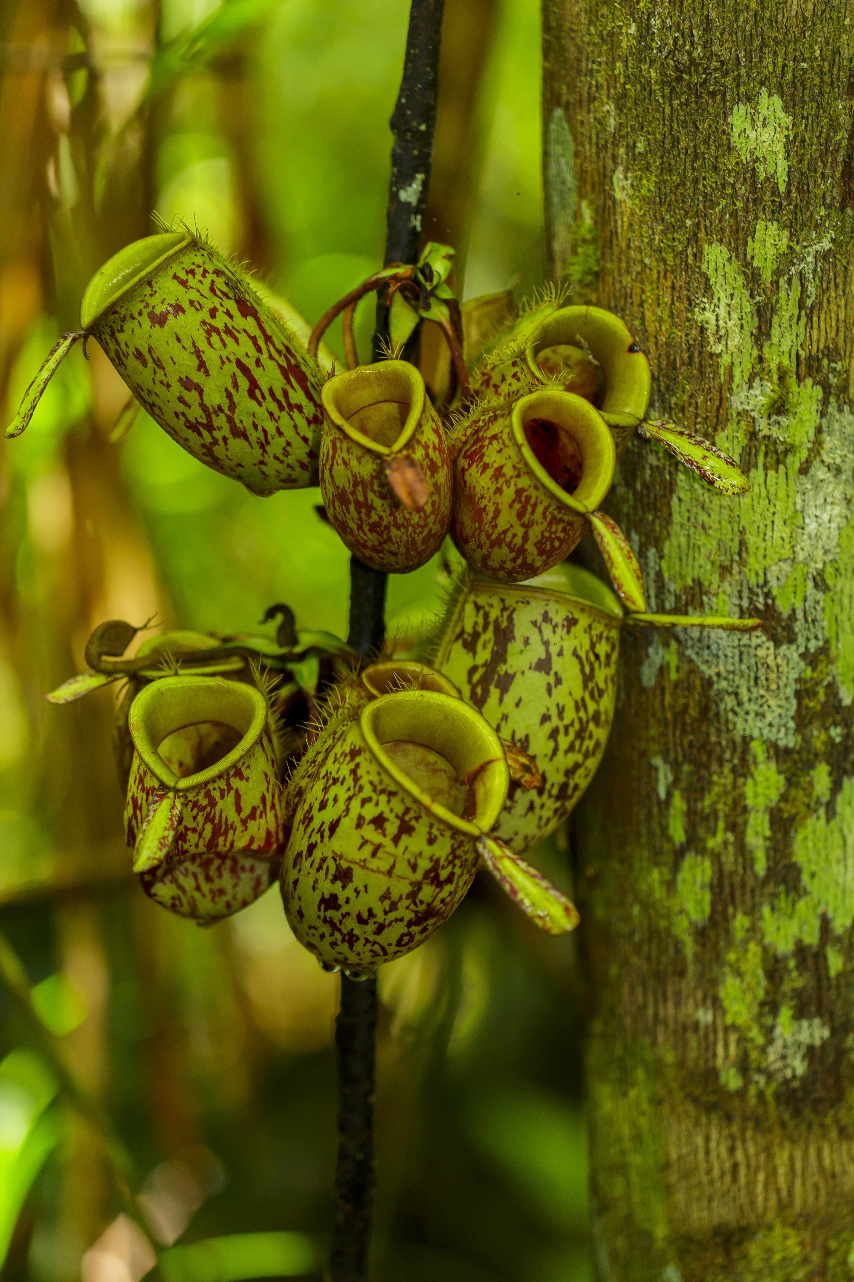 Tanjung Puting National Park - taken during a photo trip to Indonesia in 2018 - taken by Thomas Fuhrmann, SnowmanStudios - see more pictures on / mehr Aufnahmen auf